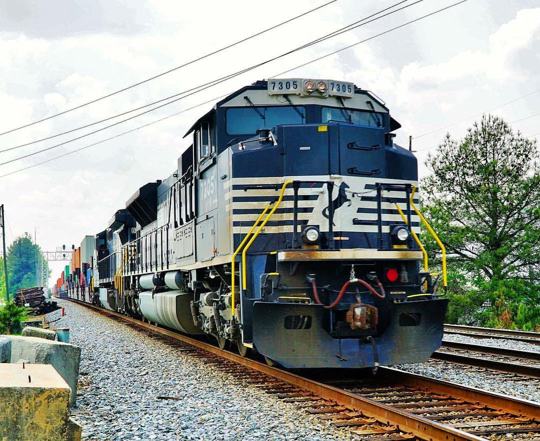 ns train 238 with a SD70ACU